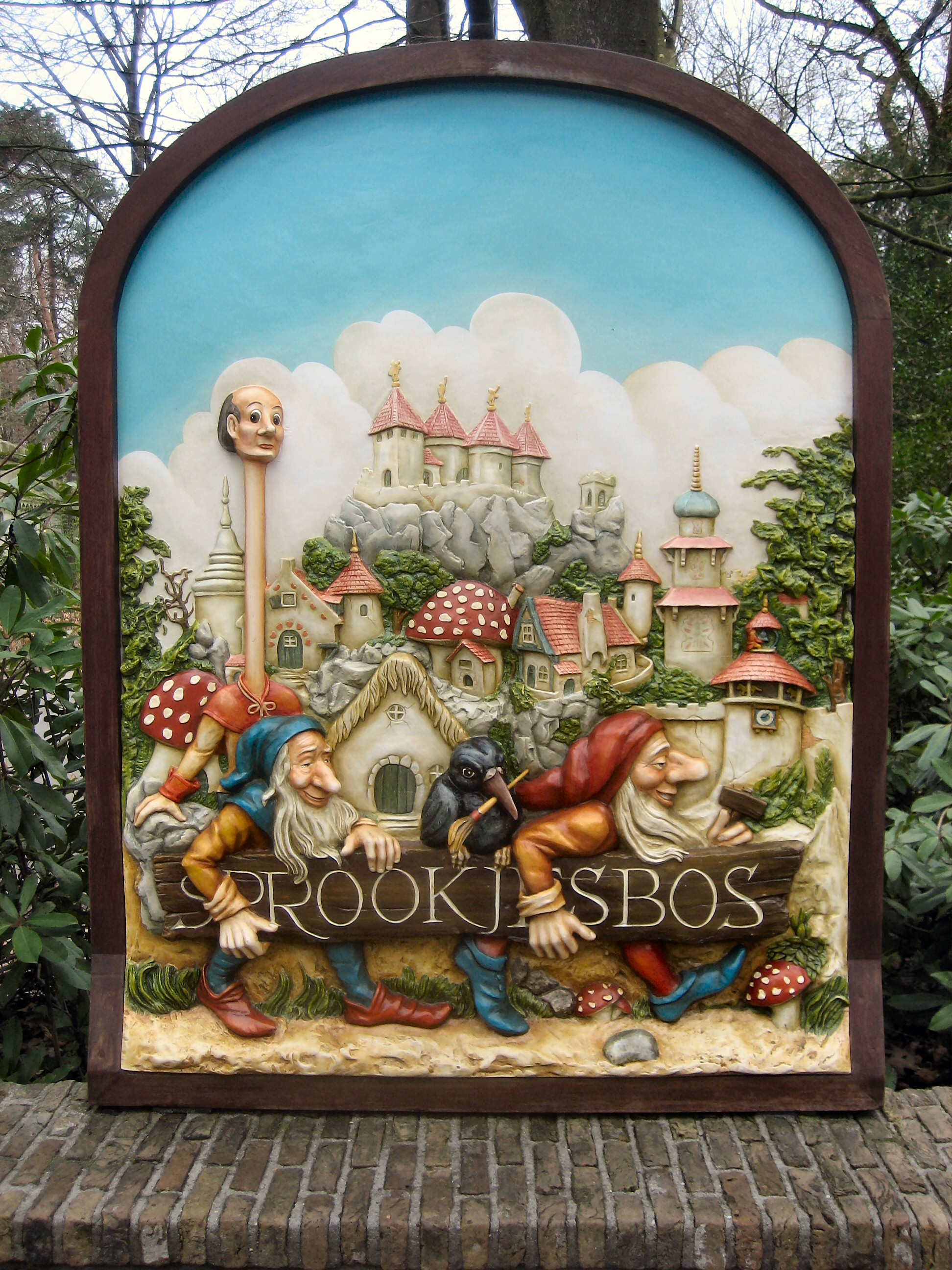 Sprookjesbos De Efteling Kaatsheuvel The Netherlands Photo taken by Hullie Sunday 23 April 2006